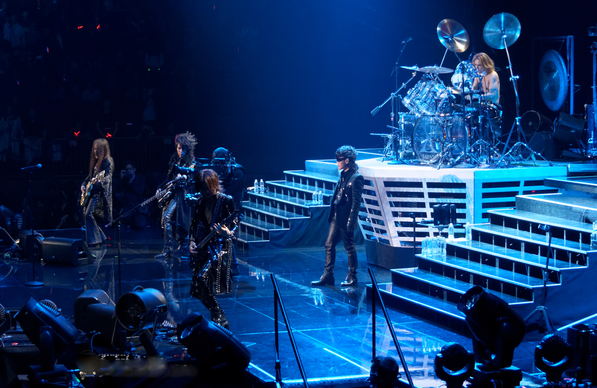 X Japan performing live at Madison Square Garden in New York City on Saturday October 11th, 2014. X Japan is Japan's biggest and most famous rock band, and this was their debut performance at the historic NYC venue.